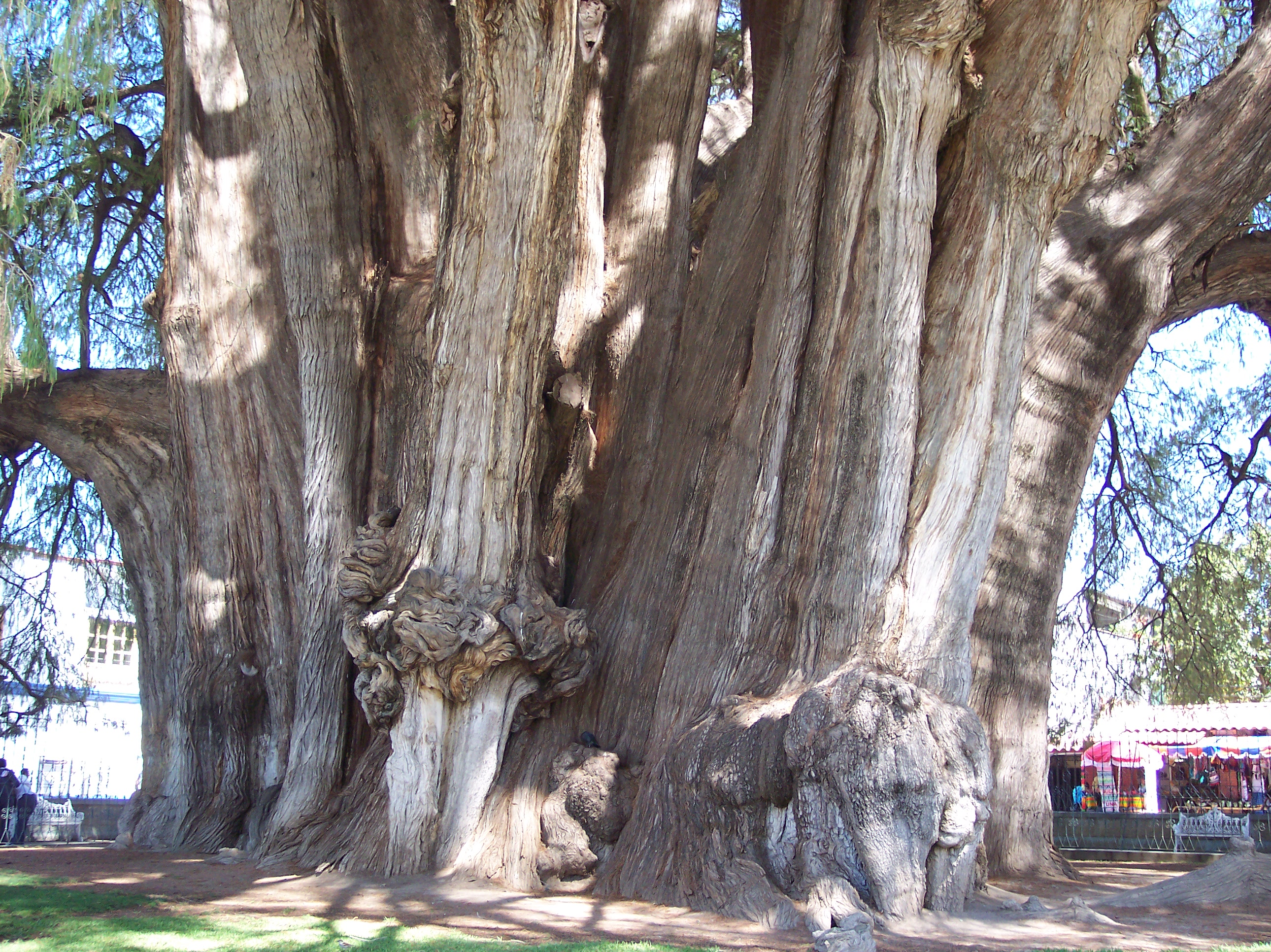 A detail of the trunk of the Tule Tree. Located in: Santa María del Tule, Oaxaca, Mexico.